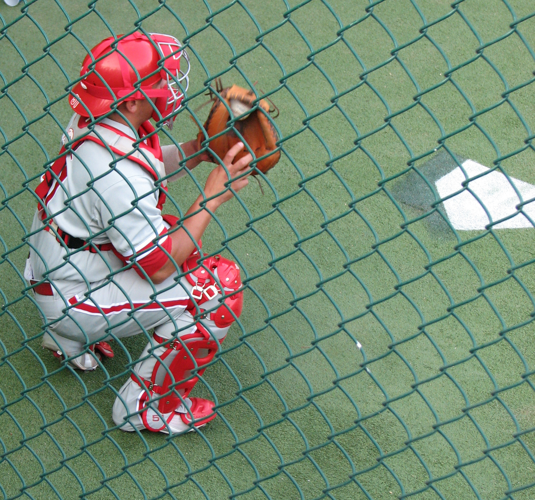 Description Ruiz warming up in the bullpen before a game against Washington, July 31, 2008 Date1 August 2008SourceI created this work entirely by myself.AuthorKV5 • Squawk box • Fight on! 15:40, 1 August 2008 . . Killervogel5 . . 1,776×1,660 (2.69 MB) Ruiz warming up in the bullpen before a game against Washington, July 31, 2008